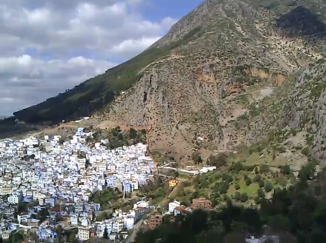 Chefchaouen or Chaouen (Berber: ⵜⵛⴻⴼⵜⵛⴰⵡⴻⵏ Accawn, Arabic: شفشاون/الشاون